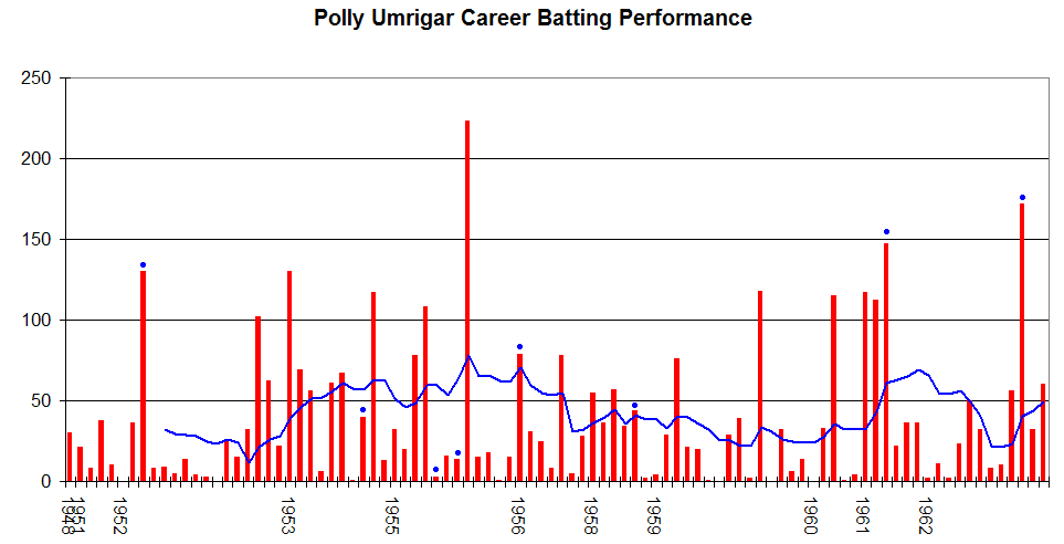 This graph details the Test Match performance of Polly Umrigar. It was created by Raven4x4x. The red bars indicate the player's test match innings, while the blue line shows the average of the ten most recent innings at that point. Note that this average cannot be calculated for the first nine innings. The blue dots indicate innings in which Polly Umrigar finished not-out. This graph was generated with Microsoft Excel 2002, using data from Cricinfo and .au.